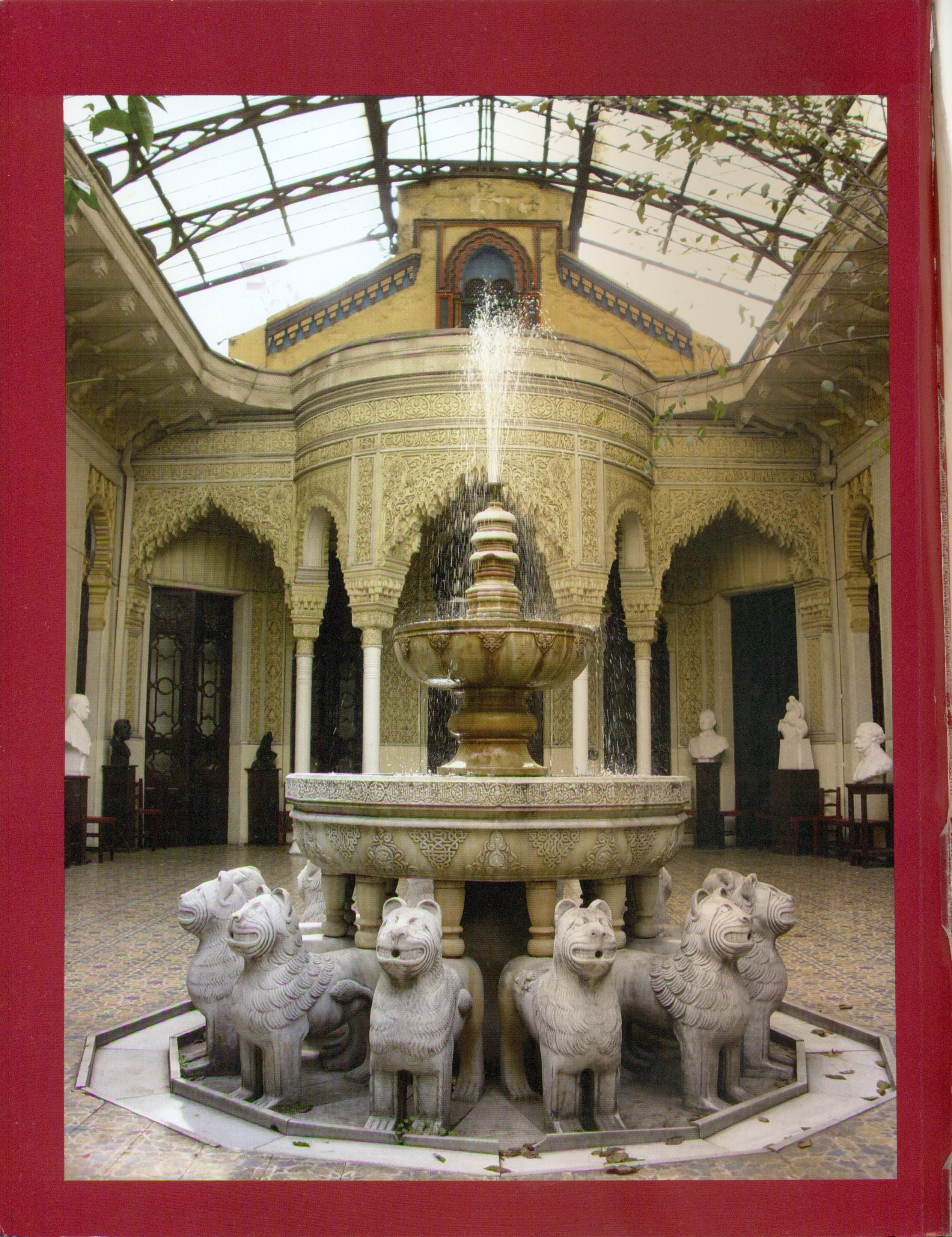 Replica of the Patio de los Leones of Alhambra, Granada, located in the "Palacio de la Alhambra", a 1860 neo-Moorish palace located in Santiago, Chile.